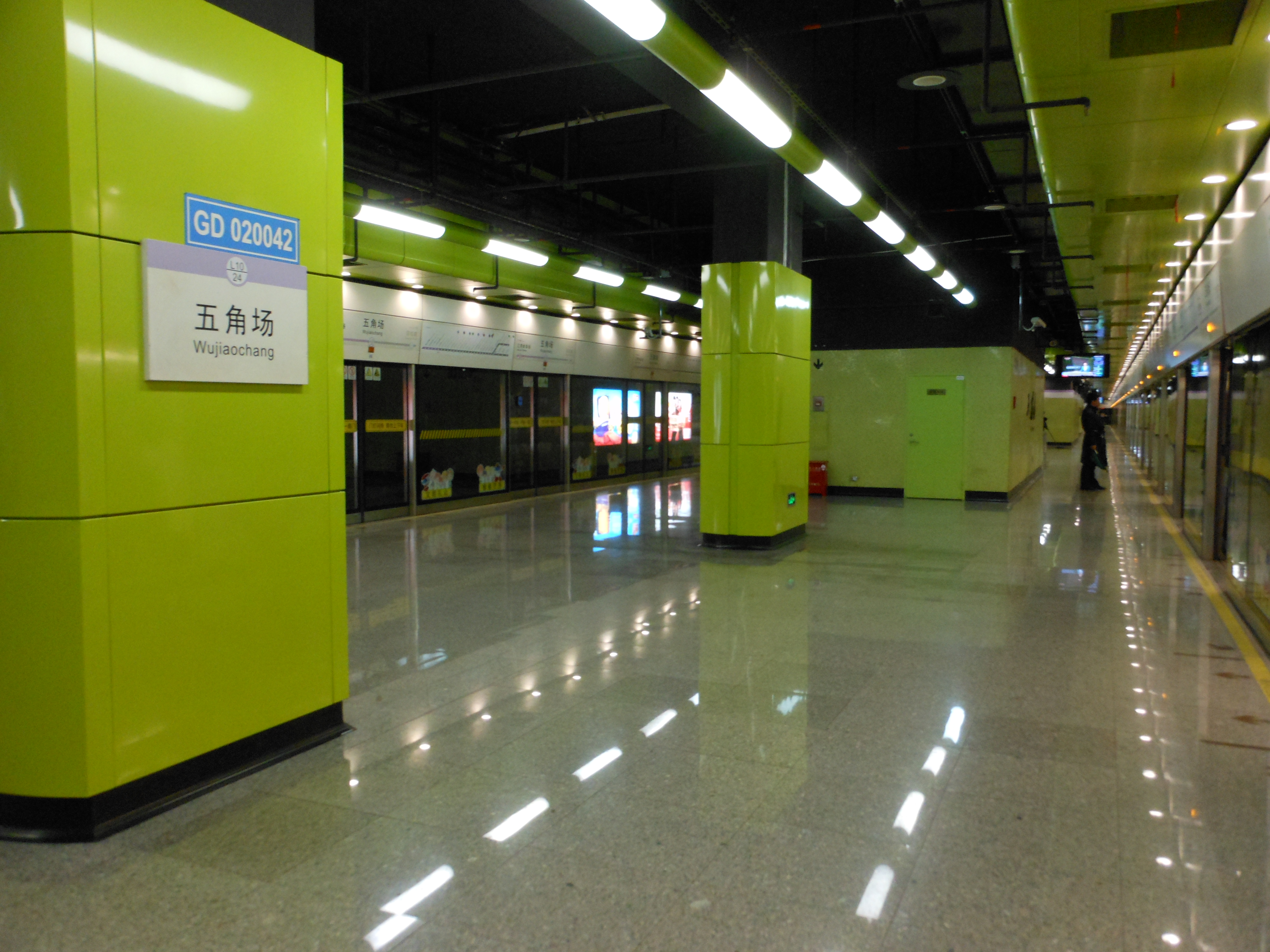 Line 10 Platform of Wujiaochang Station